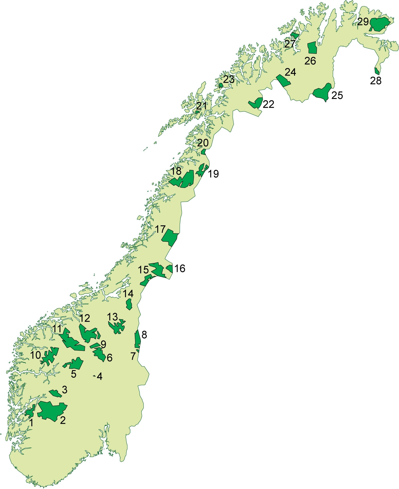 Map of the National Parks of Norway. The parks are 1: Folgefonna nasjonalpark; 2: Hardangervidda nasjonalpark; 3: Hallingskarvet nasjonalpark; 4: Ormtjernkampen nasjonalpark; 5: Jotunheimen nasjonalpark; 6: Rondane nasjonalpark ; 7: Gutulia nasjonalpark; 8: Femundsmarka nasjonalpark; 9: Dovre nasjonalpark ; 10: Jostedalsbreen nasjonalpark; 11: Reinheimen nasjonalpark; 12: Dovrefjell-Sunndalsfjella nasjonalpark; 13: Forollhogna nasjonalpark; 14: Skarvan og Roltdalen nasjonalpark; 15: Blåfjella-Skjækerfjella nasjonalpark; 16: Lierne nasjonalpark; 17: Børgefjell nasjonalpark; 18: Saltfjellet-Svartisen nasjonalpark; 19: Junkerdal nasjonalpark; 20: Rago nasjonalpark; 21: Møysalen nasjonalpark; 22: Øvre dividal nasjonalpark; 23: Ånderdalen nasjonalpark; 24: Reisa nasjonalpark; 25: Øvre Anarjohka nasjonalpark; 26: Stabbursdalen nasjonalpark; 27: Seiland nasjonalpark; 28: Øvre Pasvik nasjonalpark; 29: Varangerhalvøya nasjonalpark (For legend